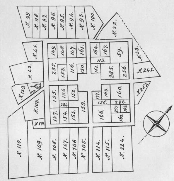 Map of Bergen and Buyten Tuyn showing the1660 Cortelyou plan of Bergen.